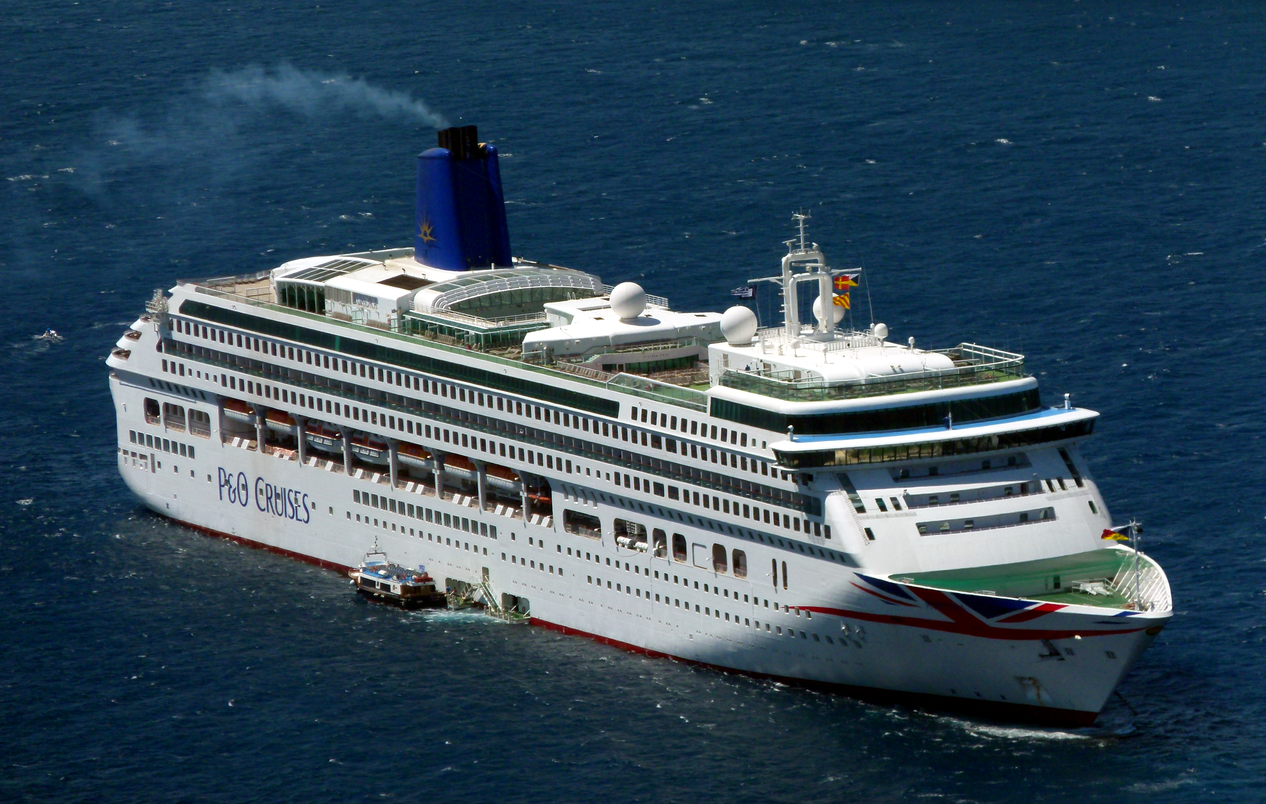 P&O Cruises MV Aurora at anchor in the Santorini basin. Ship is in post 2014 refit paint scheme - Union flag on bows plus blue funnel.